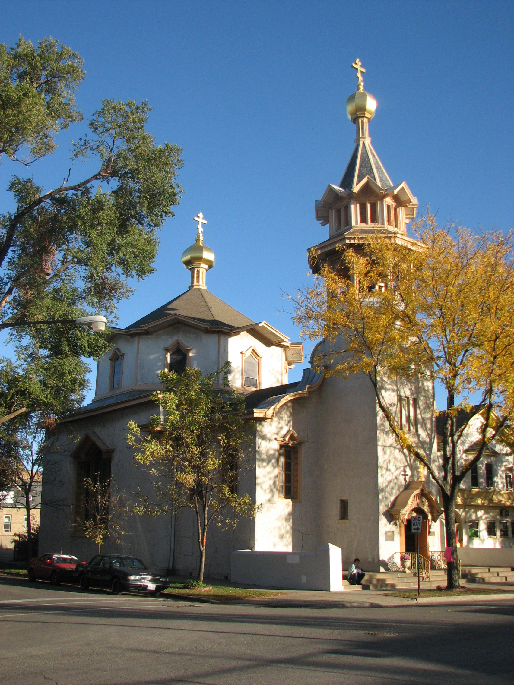 Holy Trinity Cathedral Chicago Orthodox Church in America Founded in 1892 as St. Vladimir's Russian Orthodox Church Designed in 1901 by LOUIS H. SULLIVAN Consecrated in 1903 by Patriarch TIKHON OF MOSCOW Designated a Cathedral in 1923 Placed on the National Register of Historic Places in 1976